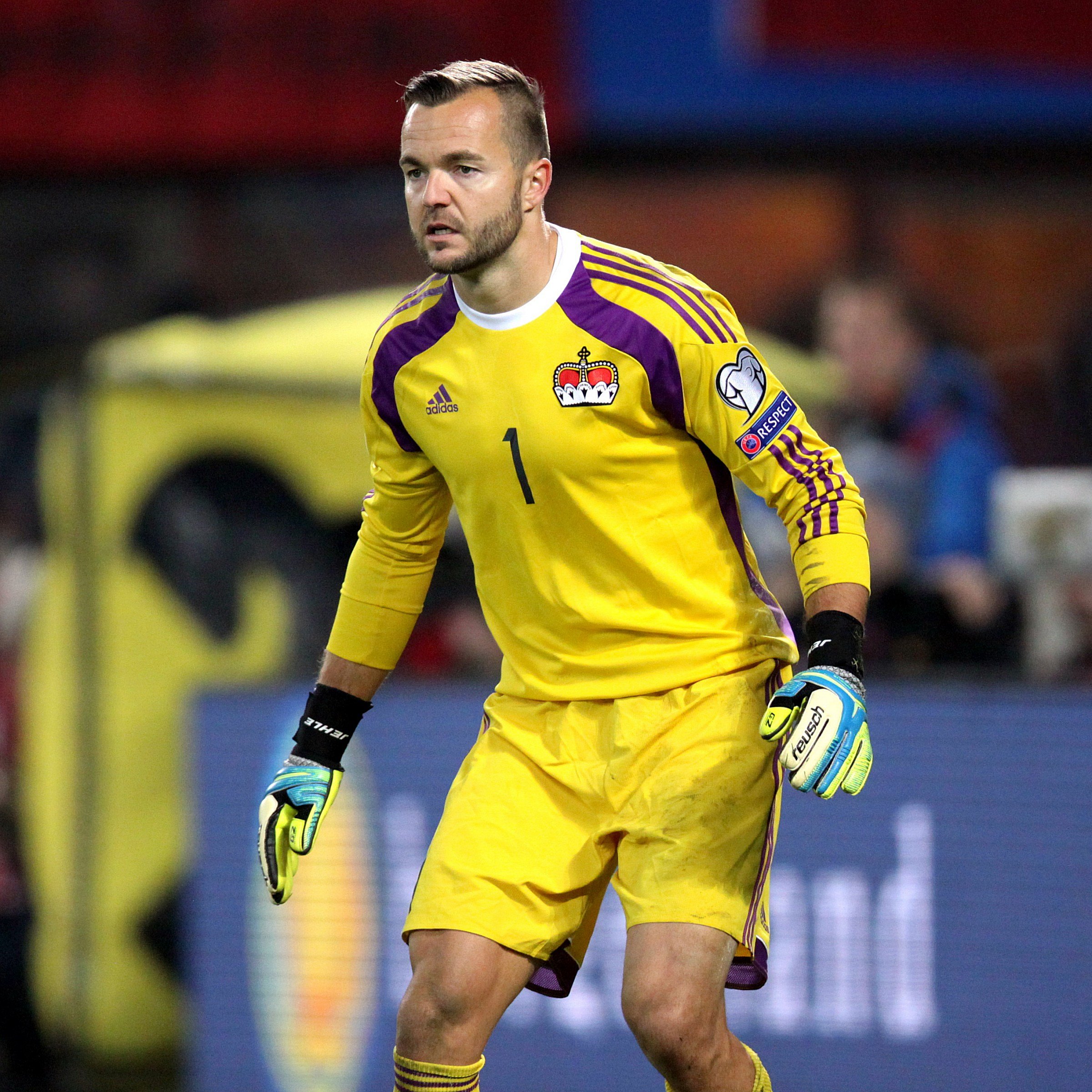 UEFA Euro 2016 qualifying, Group G – Austria (red shirts) vs. Liechtenstein (blue shirts) 3–0 (1–0) on 2015-10-12 in Ernst-Happel-Stadion, Vienna – The photo shows the goalkeeper of Liechtenstein Peter Jehle.